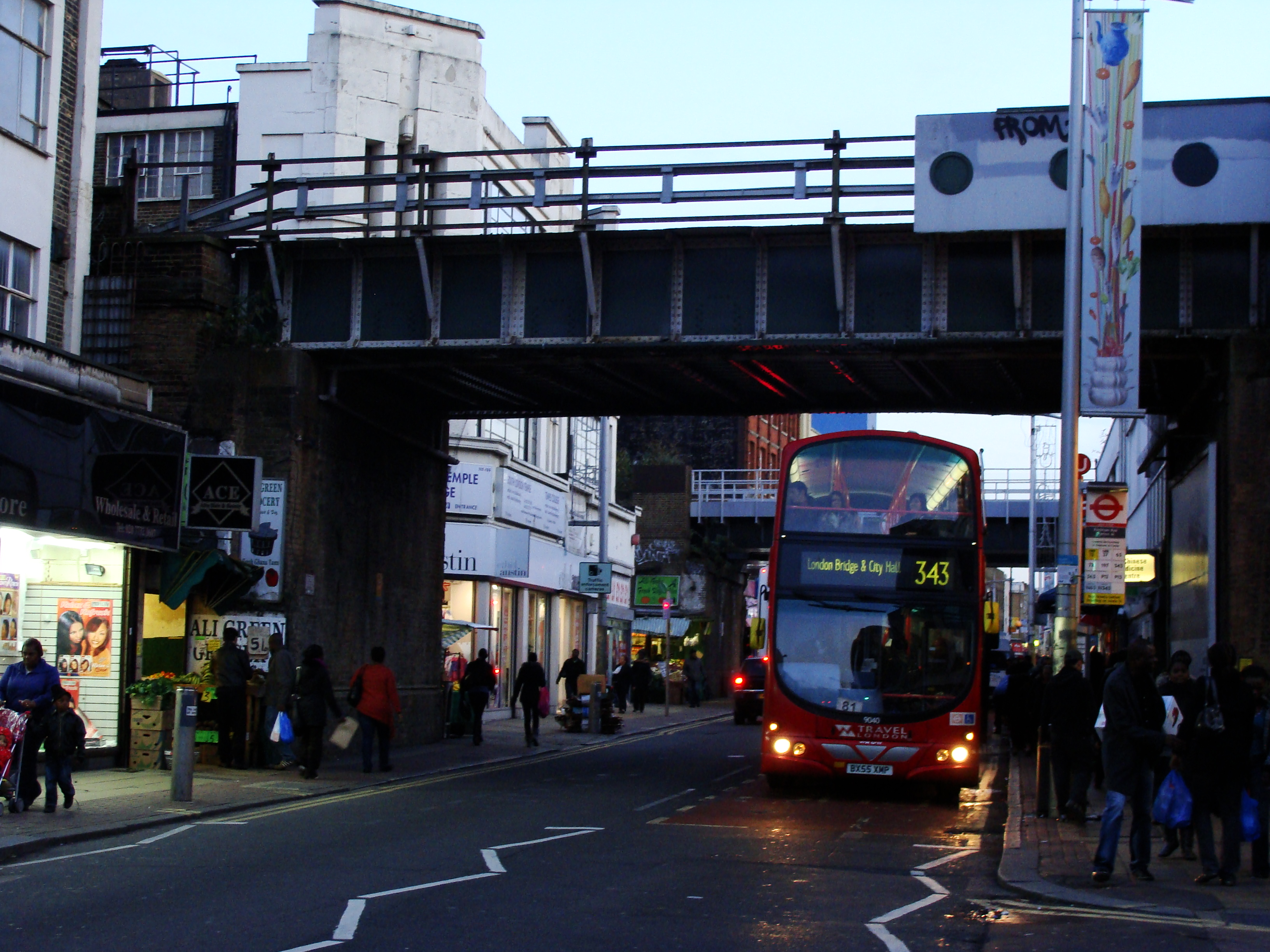 Bridge over Peckham